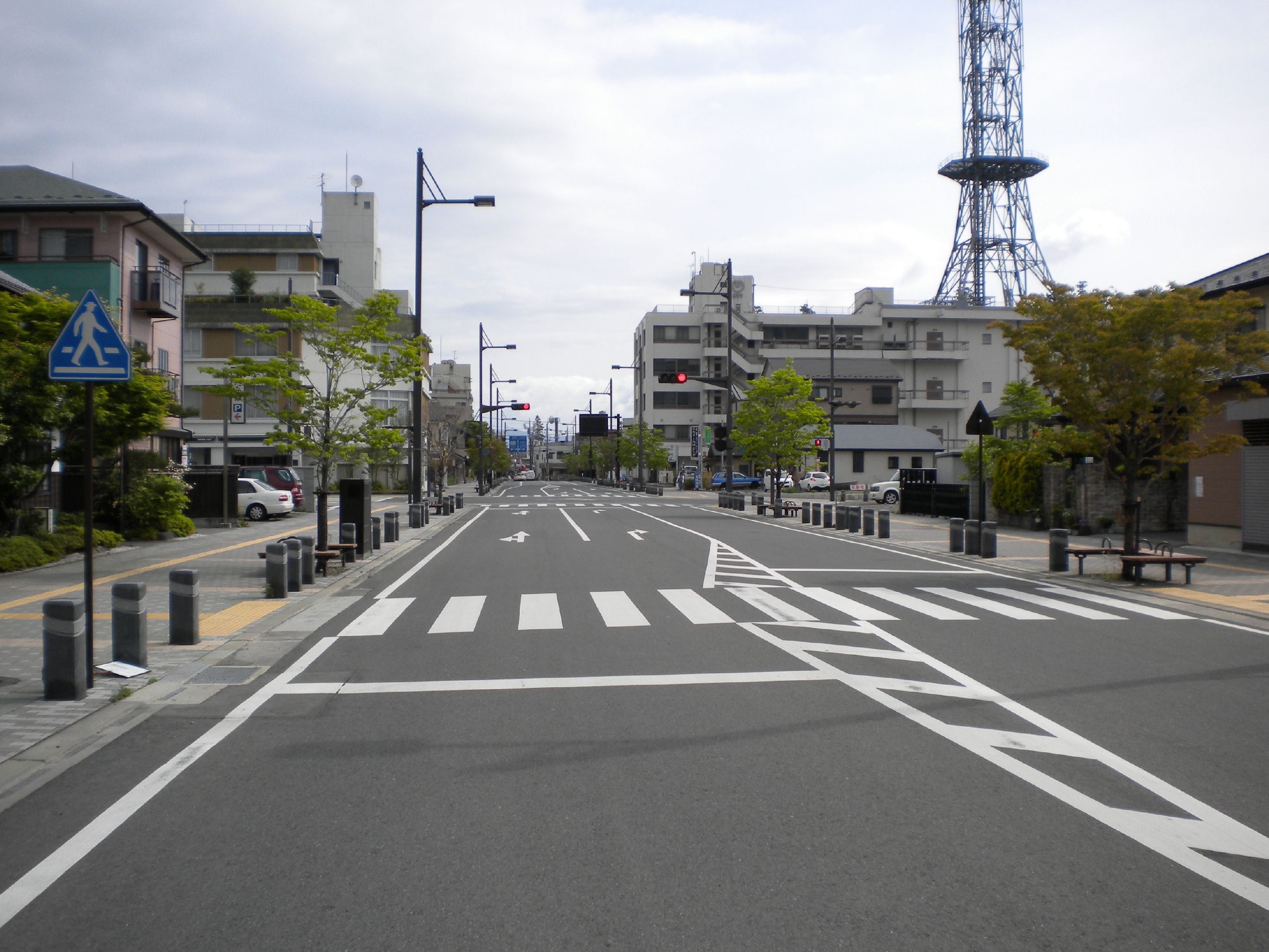 Tochigi prefectural road No.229 on Nikko city